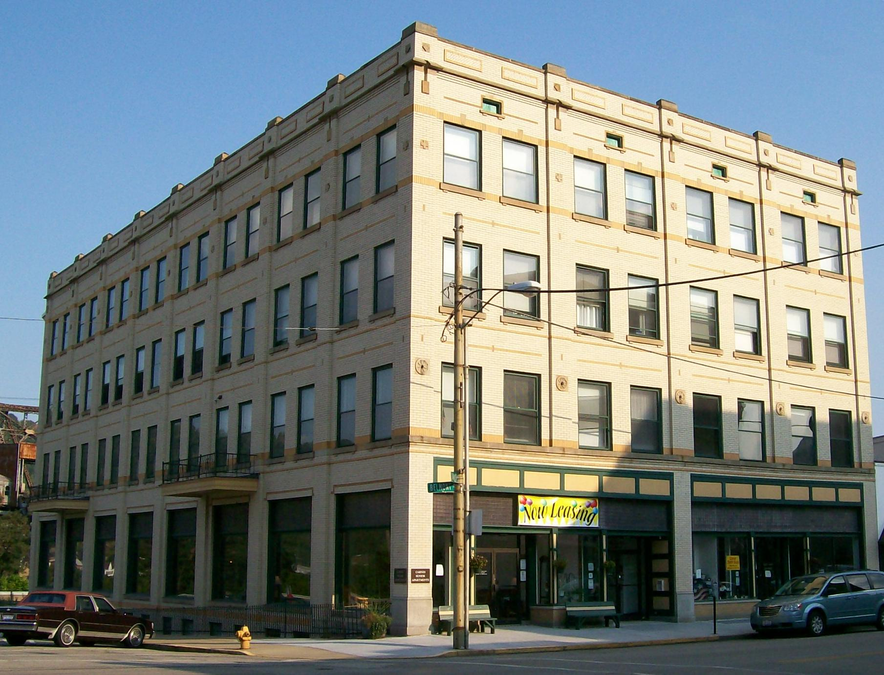 The Zeig Building in Bellaire, Ohio